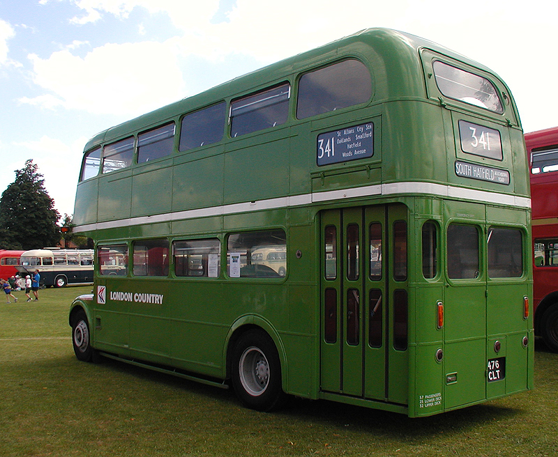 Preserved Routemaster coach RMC1476, pictured at the 2003 Alton bus rally.